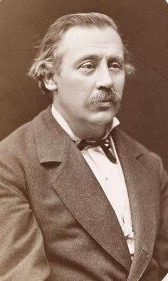 Gustav Radde's portrait